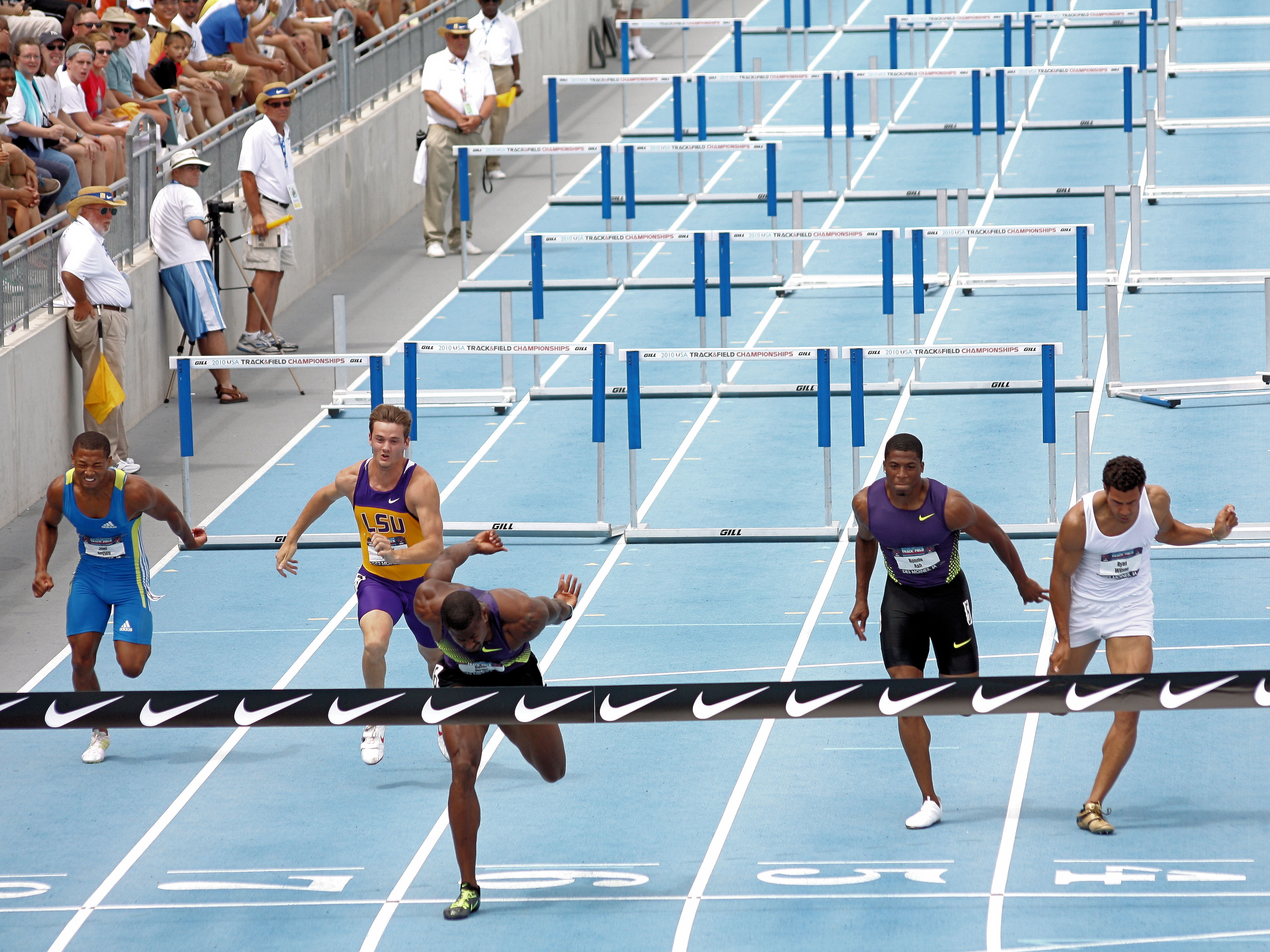 David Oliver winning the national title in the men's 110m hurdles.